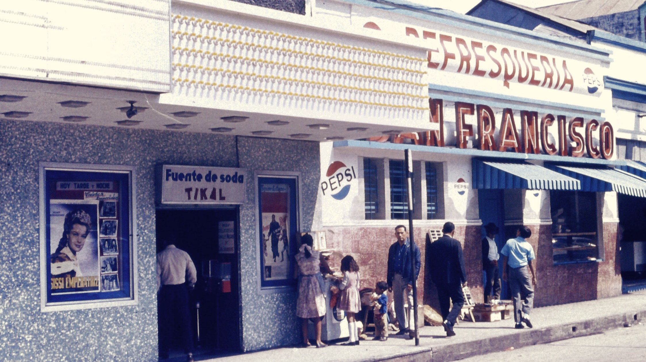 Cinema in Guatemala City, 1971 (Austrian Film "Sissi" on show